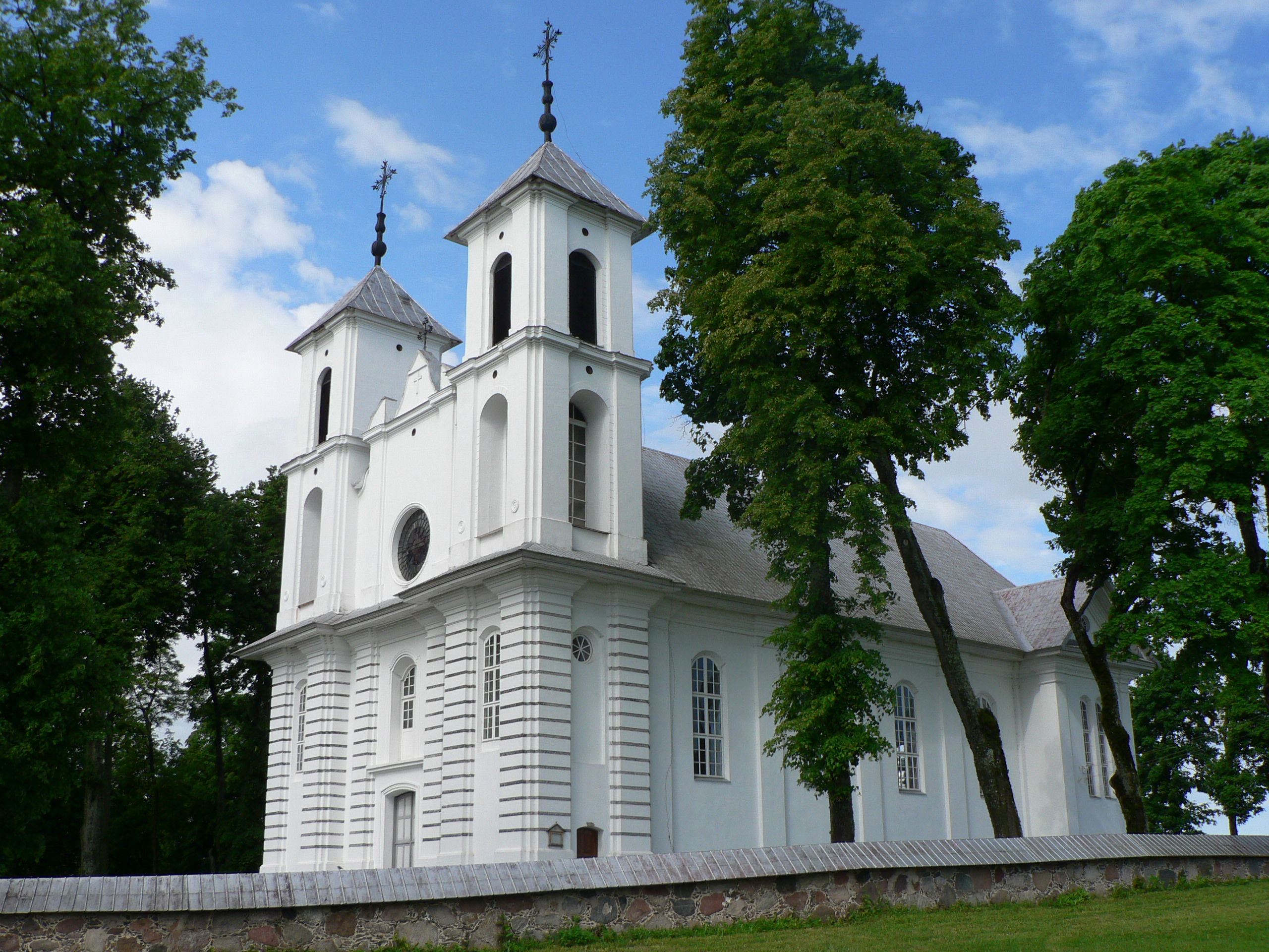 Catholic church in Punia, Lithuania.